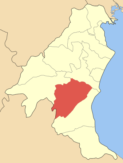 Locator map of Diou municipality (Δήμος Δίου) at Pierias perfecture, Greece.